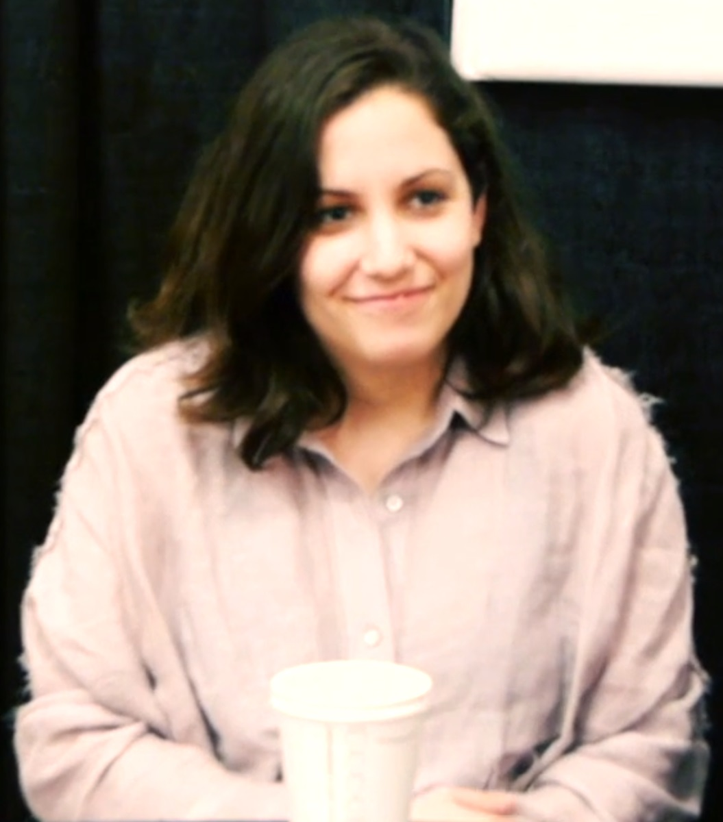 Hannah Fidell SXSW Film 2013 Interview in Austin, TX with Smells Like Screen Spirit in support of A Teacher.